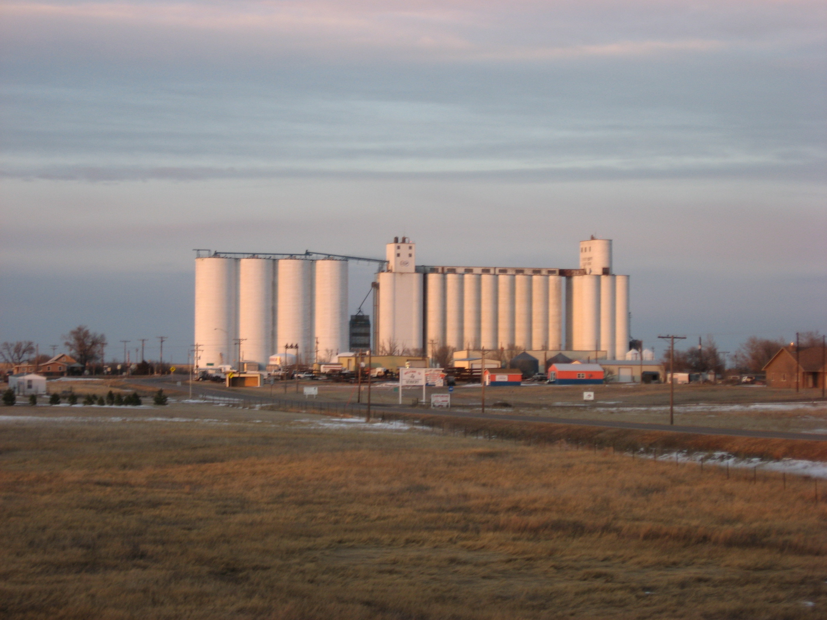 Overview of Seibert, Colorado, United States, with U.S. Route 24 in the foreground, as seen from that route's onramp to westbound Interstate 70.